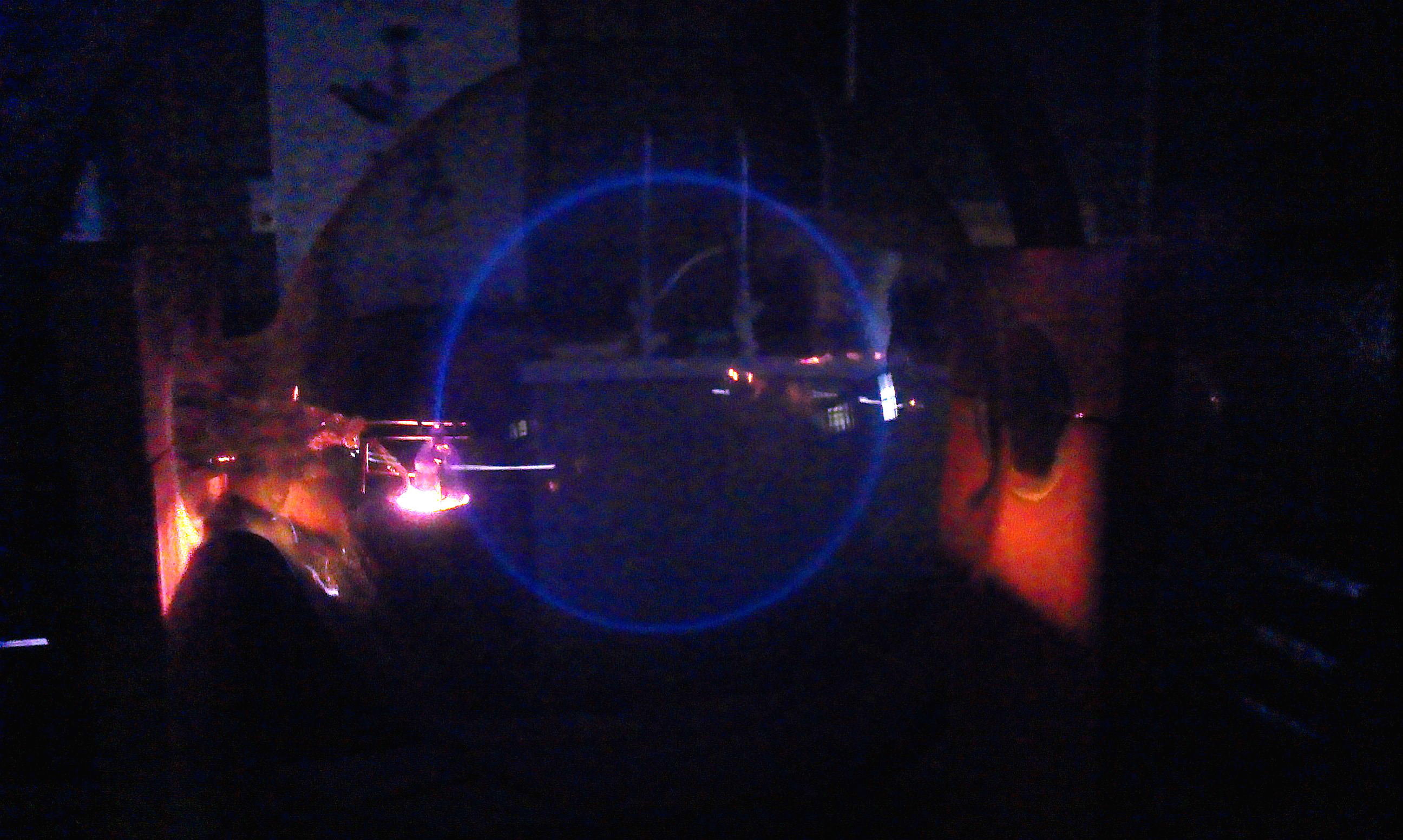 An electron beam is being deflected by an applied homogeneous magnetic field. The blue light is generated by collision with the low density hydrogen gas inside the sphere.